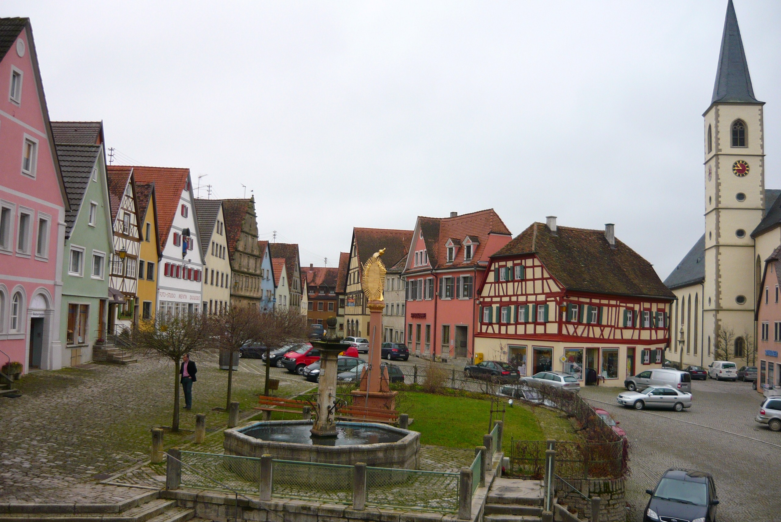 View from the towen hall to the marketplace in Aub